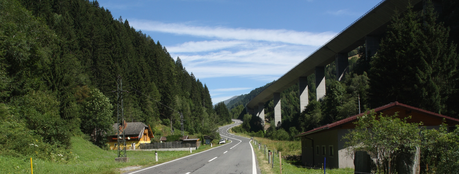 Austrian state road B99 (German: Landesstraße B99 aka "Katschberg Straße"), south ramp northern village Eisentratten, Austrian motorway A10 "Tauern Autobahn" right in picture